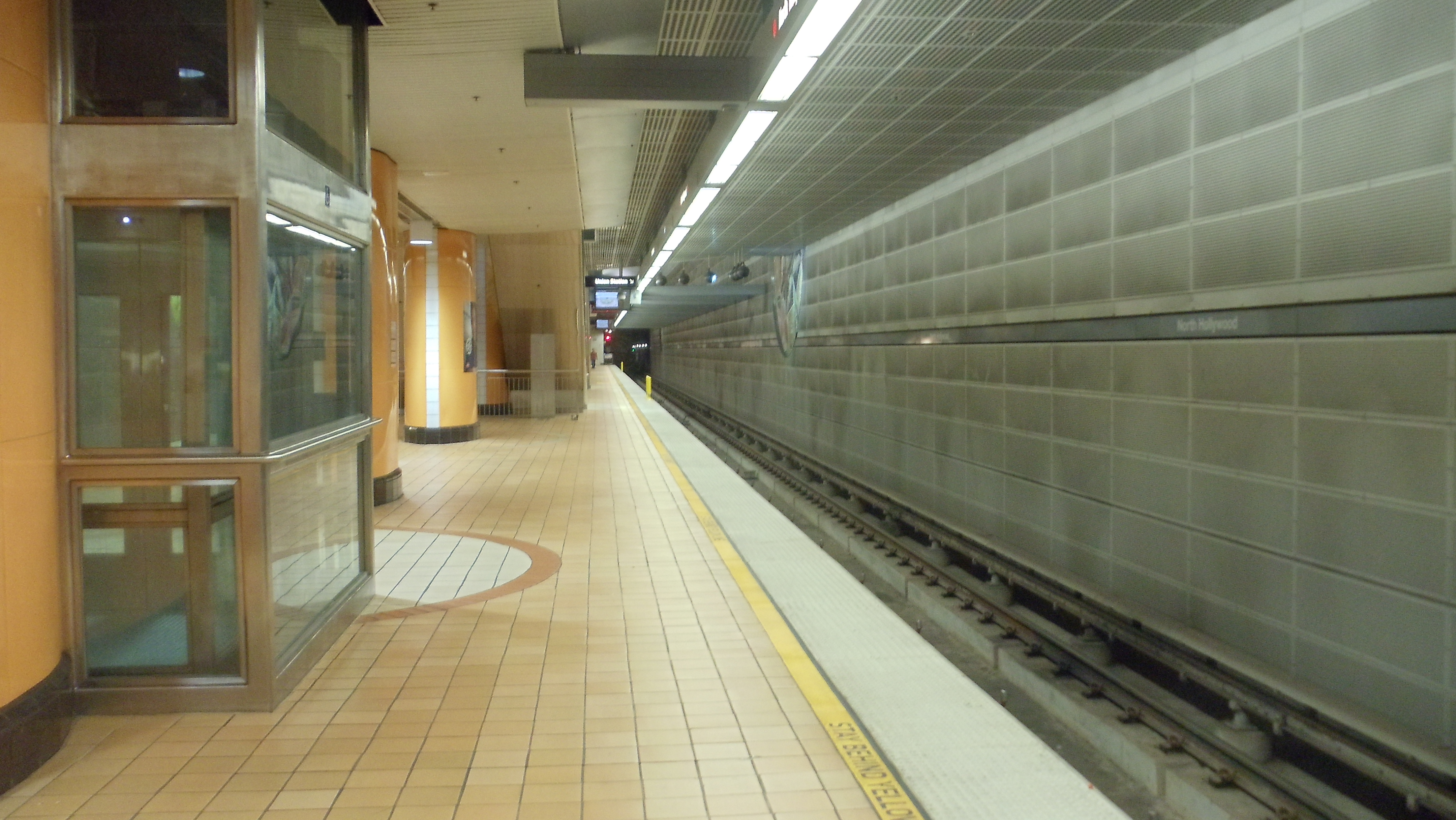 North Hollywood Metro Red Line Station platform.